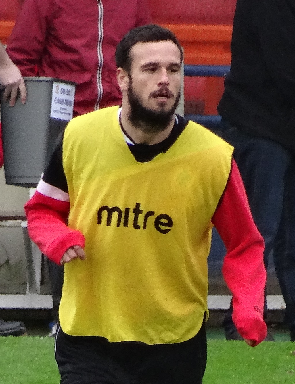 Lee Molyneux.